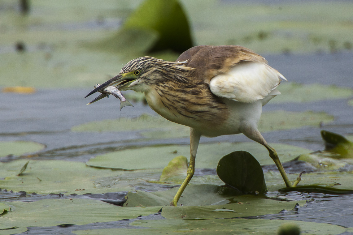 Squacco Heron -Torrile - Italy_1327